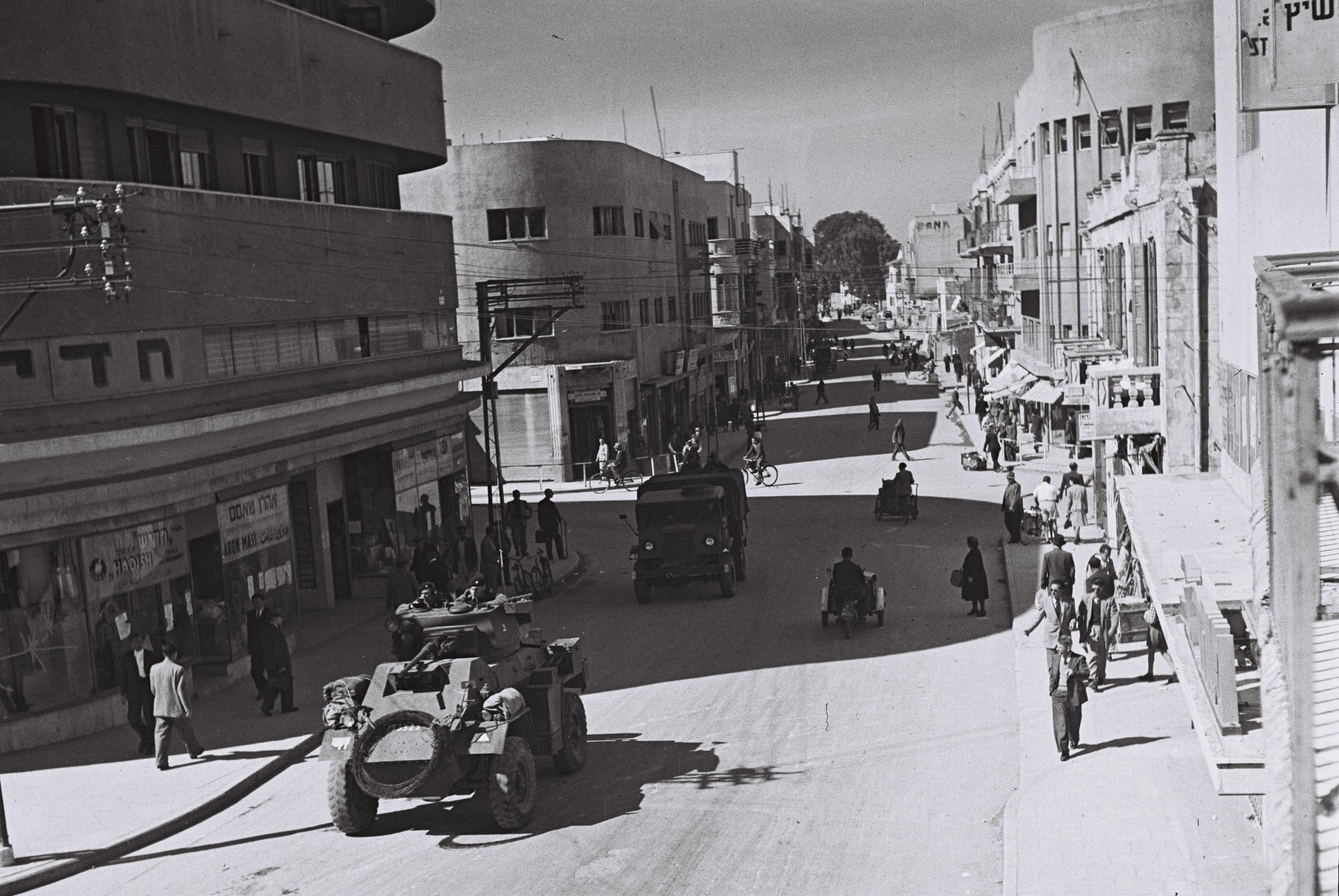 A British army patrol down Nahlat Benyamin Street in Tel Aviv during a 3 hour break in curfew, on 2nd March, 1947